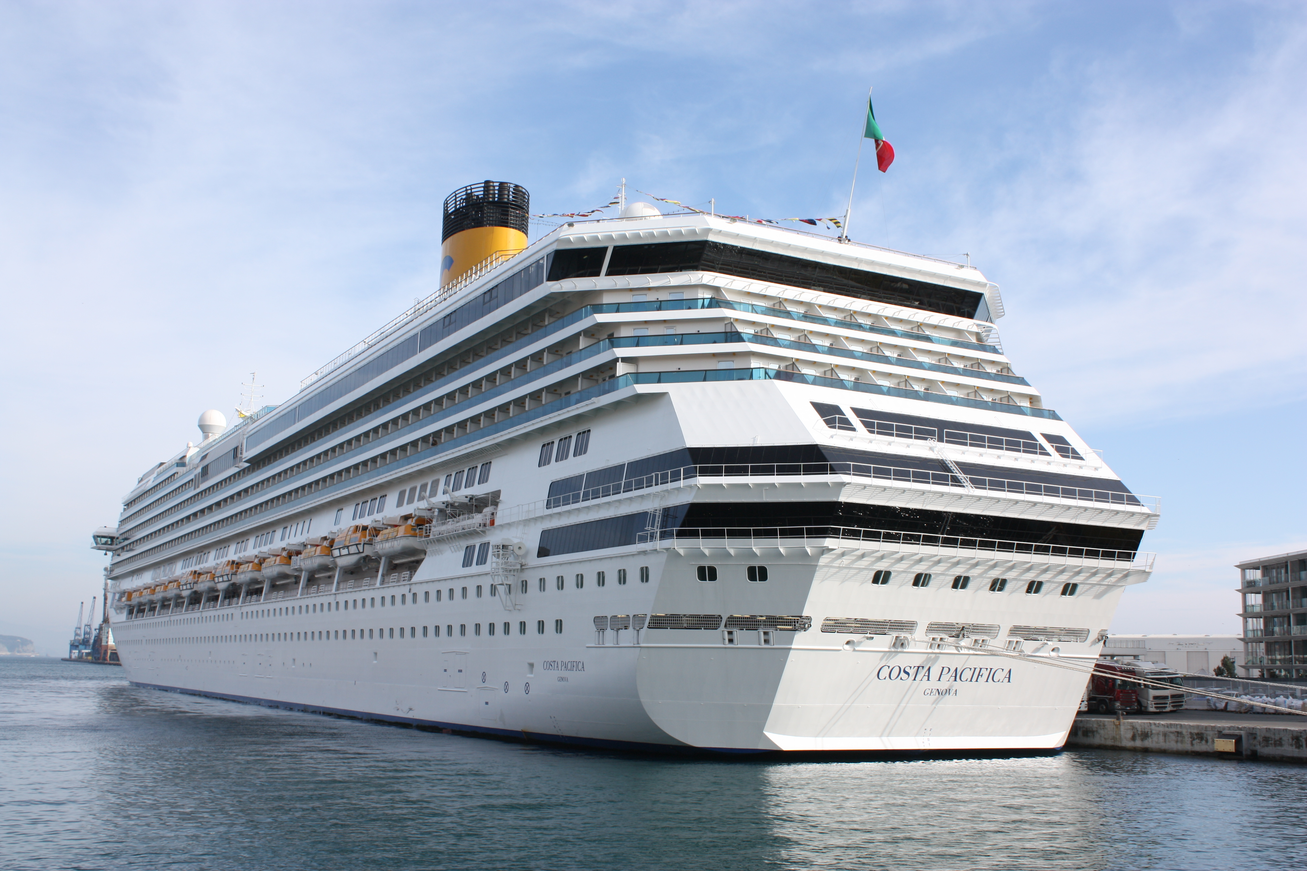 Costa Pacifica docked in Savona, Italy.